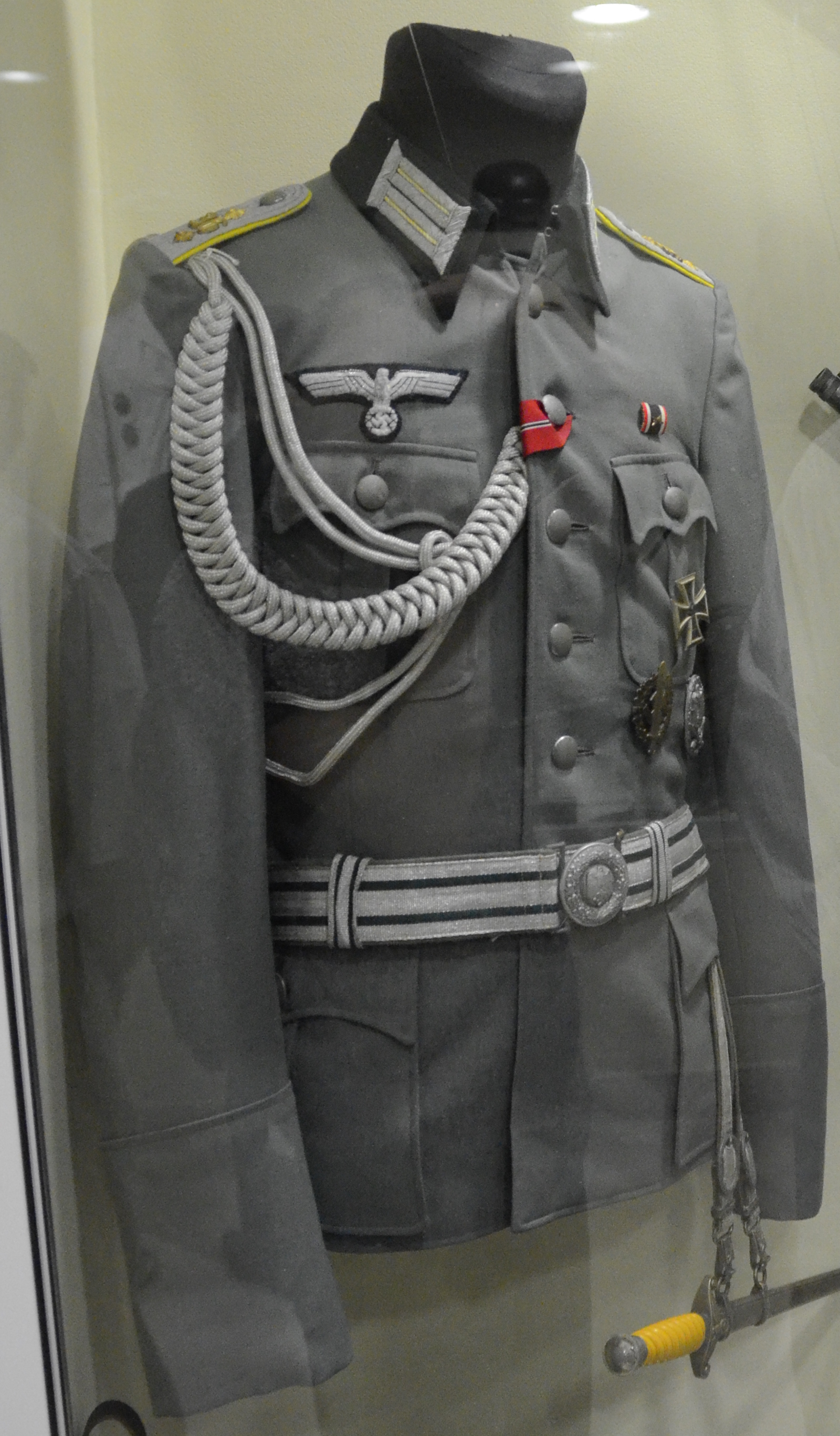 Wehrmacht Heer (army of Nazi Germany) officer's full-dress uniform (grosser Gesellschaftanzug). Waffenrock model 1937. Exhibited in the Museum of the Great Patriotic War (To Donbass Liberators Memorial Complex) in Donetsk, Ukraine. The Waffenrock (military coat) was descended from that introduced by the Prussian Army in 1842 and rapidly adopted by the other German states. In its Wehrmacht form as issued in 1935, it was a formfitting thigh-length eight-button tunic of fine feldgrau wool, without external pockets. The collar was taller than the service tunic and bore more elaborate Litzen (braids), embroidered all in silver-white and mounted on Waffenfarbe backing; smaller Ärmelpatten, similar in appearance to Litzen, appeared under the buttons on the dark-green Swedish cuffs. Waffenfarbe piping also edged the collar, cuffs, front closure, and scalloped rear vent. Officers wore a formal belt of silver braid. Trousers were steingrau, with the outer seams piped in Waffenfarbe. In the full-dress uniform (grosser Gesellschaftanzug) the Waffenrock was worn with medals, aiguillette (officers), trousers and shoes, the Schirmmütze (visored service cap), gloves, and sword (officers/senior NCOs) or dress bayonet (enlisted). Parade dress substituted the steel helmet and jackboots. Semi-formal (kleiner Gesellschaftanzug) and walking-out (Ausgangsanzug) uniforms were as full-dress, but without aiguillette and with ribbons replacing medals. Production and issue of the Waffenrock was suspended in 1940, and either the service or the officers' ornamented uniform was worn for dress occasions instead. However, the Waffenrock remained authorized for walking out for those who had or could purchase it; and it was a widespread if unauthorized practice to loan a soldier a Waffenrock from regimental stocks to get married in, as evidenced by many wartime wedding photos.